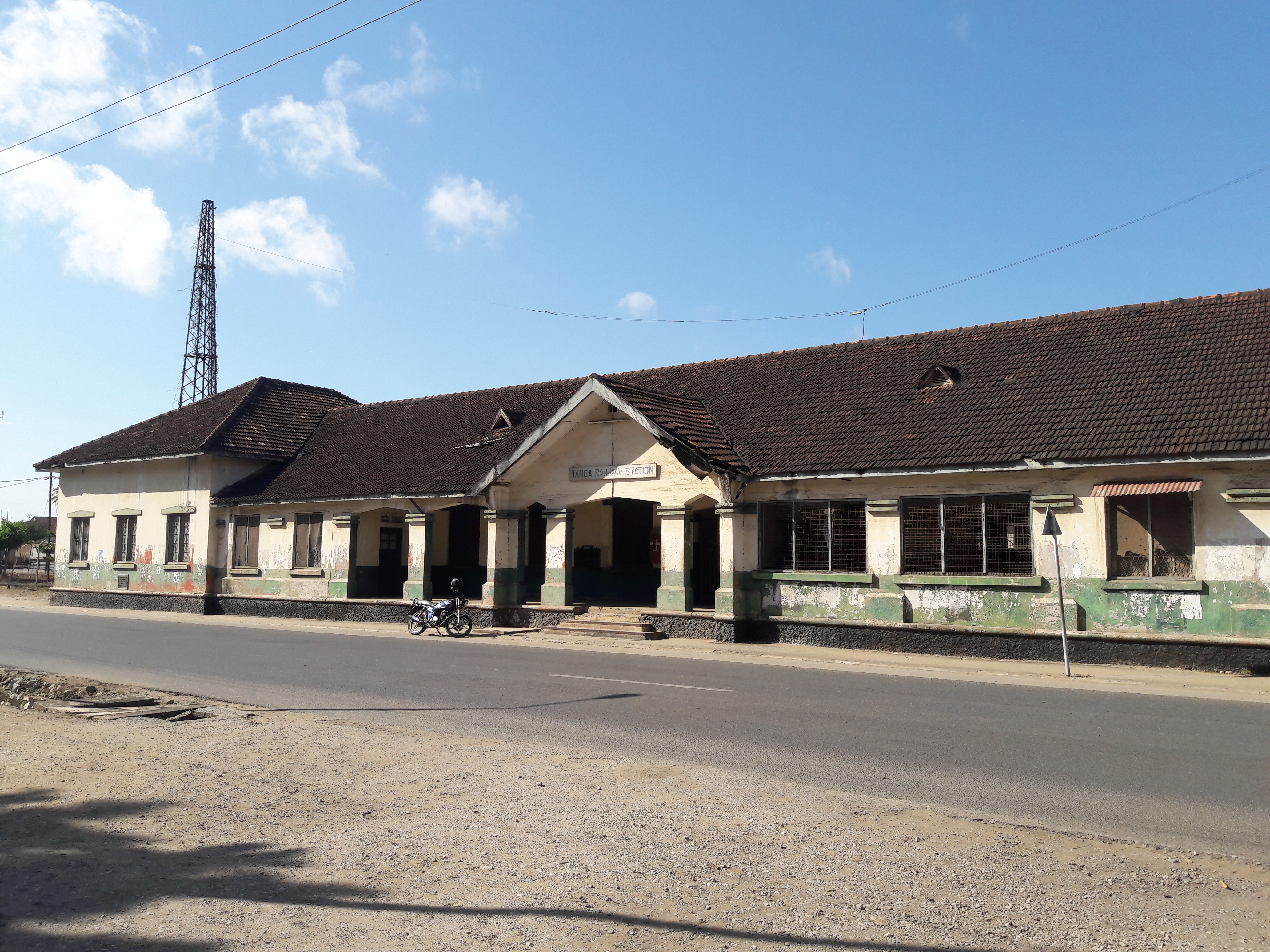 Tanga Railway Station seen from the street outside in July 2019.